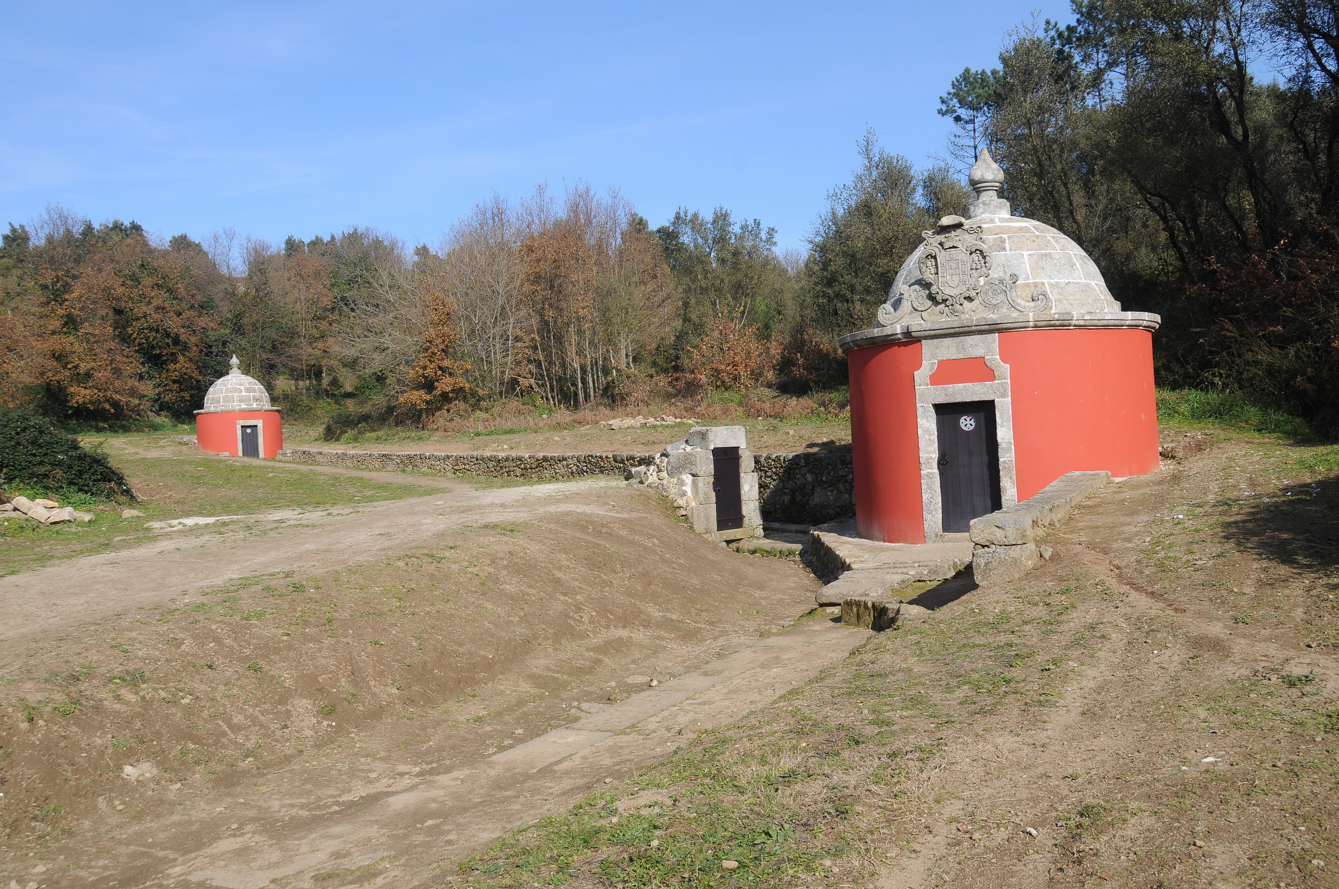 Mãe d'Água Alvim de Baixo in Sete Fontes, Braga, Portugal.